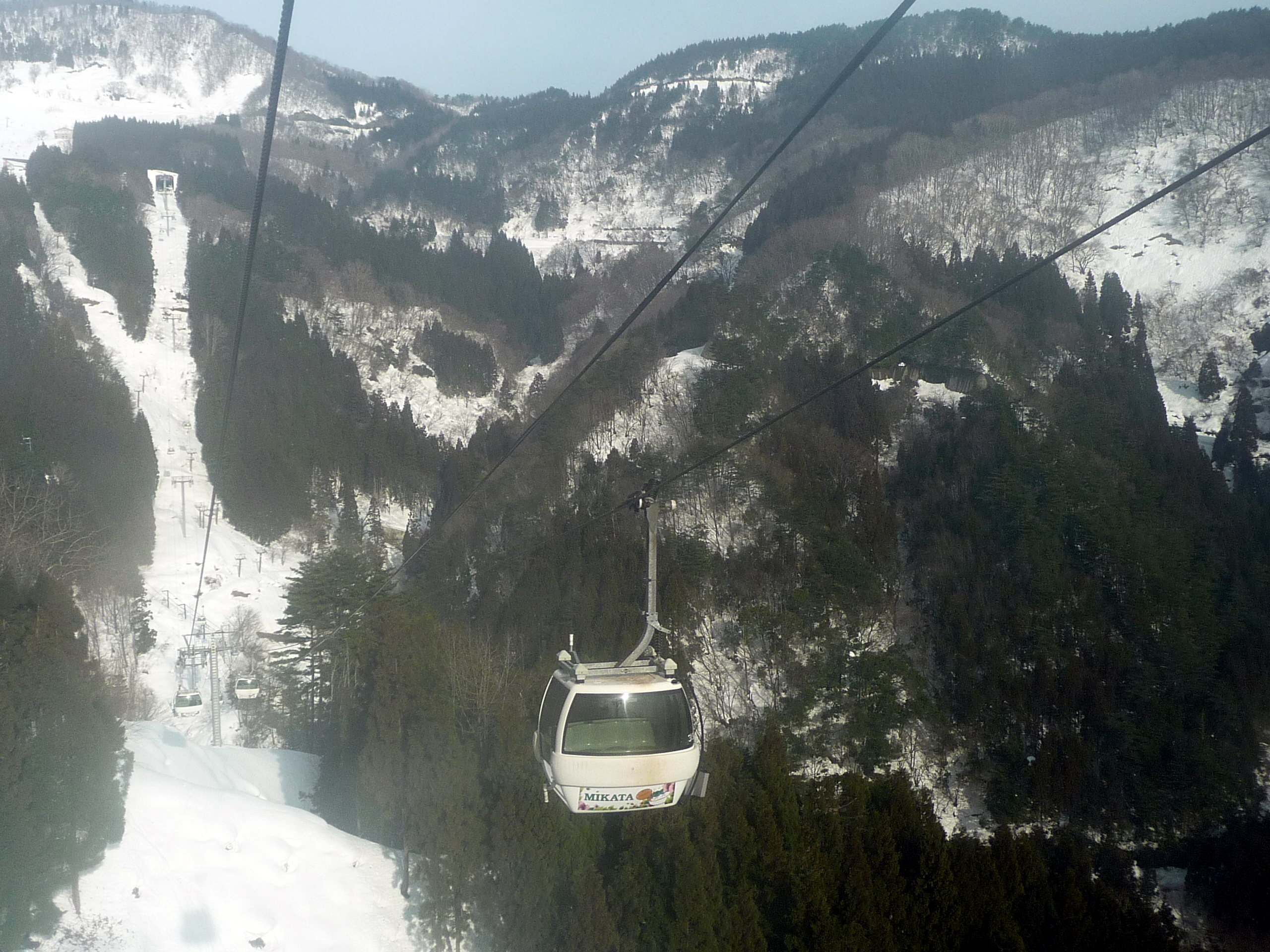 Gondola lift at Ojiro Skiing Resort